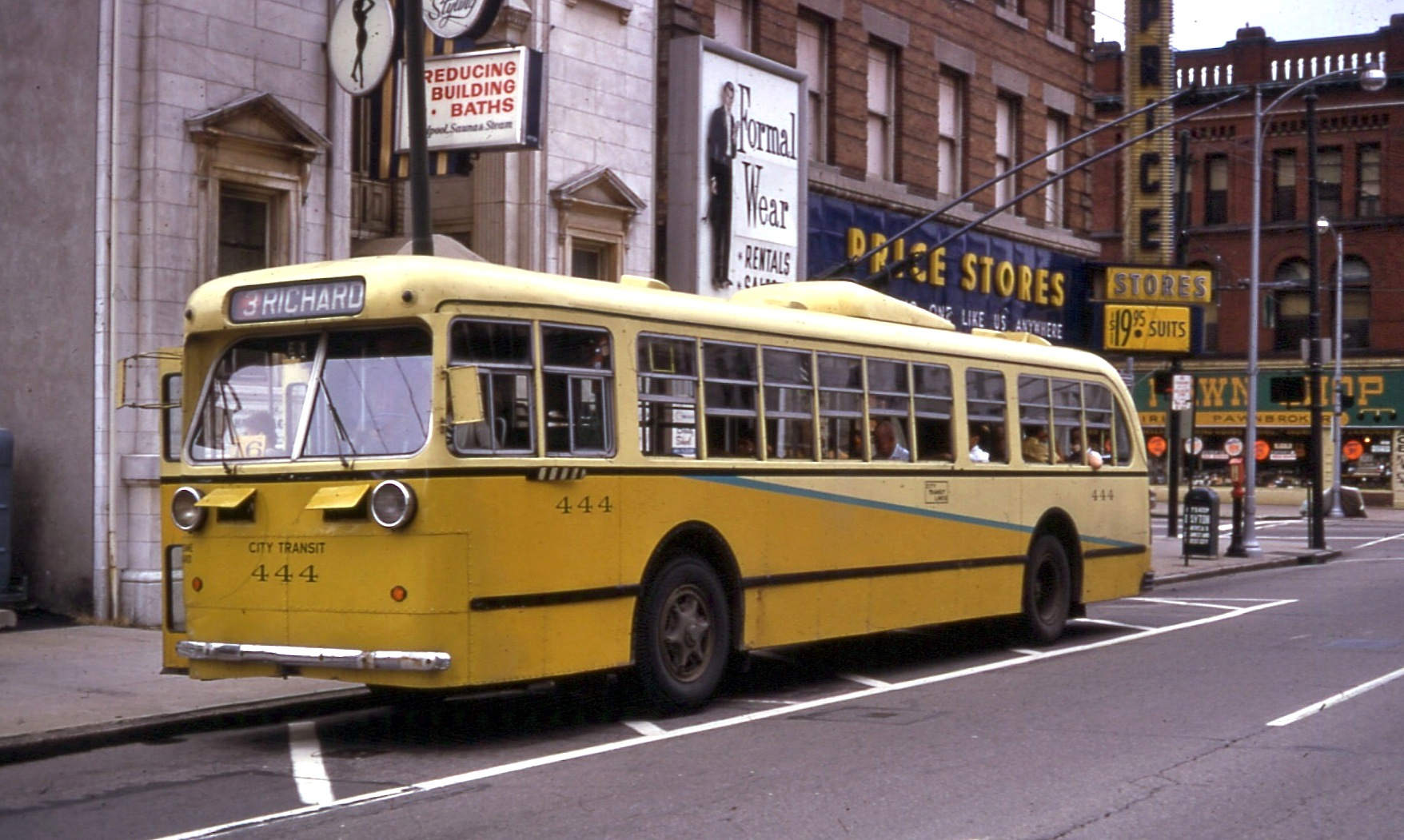 Dayton, Ohio: City Transit Company trolleybus 444, built in 1947 by Pullman-Standard, at the bus stop northbound on Jefferson Street just north of 4th Avenue, in downtown Dayton, in 1968. It is displaying signage for route 3 to Richard Street (a former route that in early 1967 was extended to Hearthstone Drive and the Richard St. section abandoned), but was really operating on a special excursion for trolley fans/enthusiasts, not in service. Dayton's last Pullman trolleybuses were retired in 1973, but the Dayton trolleybus system continues to operate in 2014. Of the three buildings in the background, only the one in the center (Price Stores building) still stands.